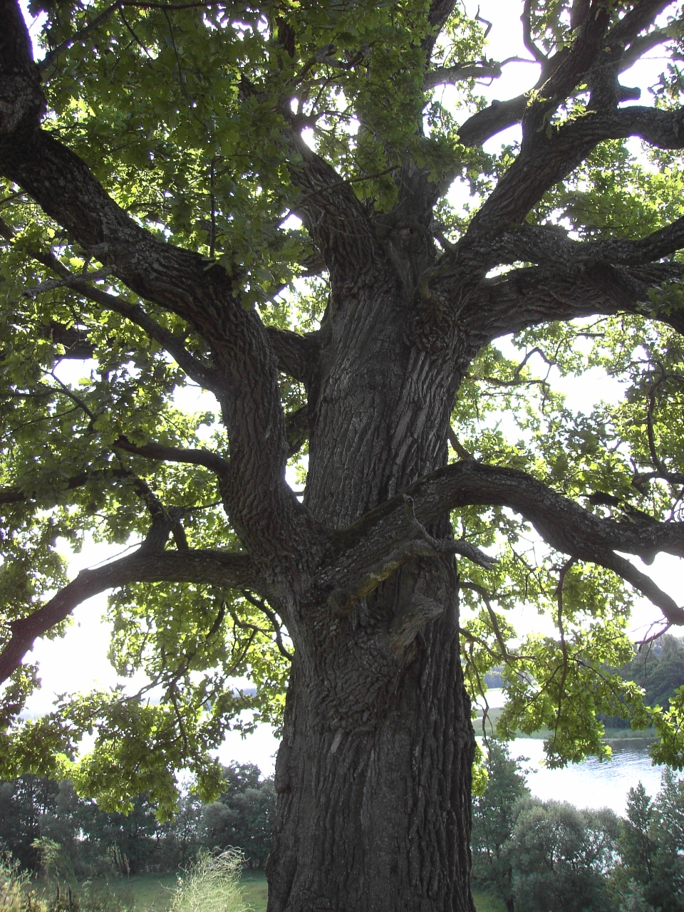 Oak in Puziniškis, Ignalina district, Lithuania